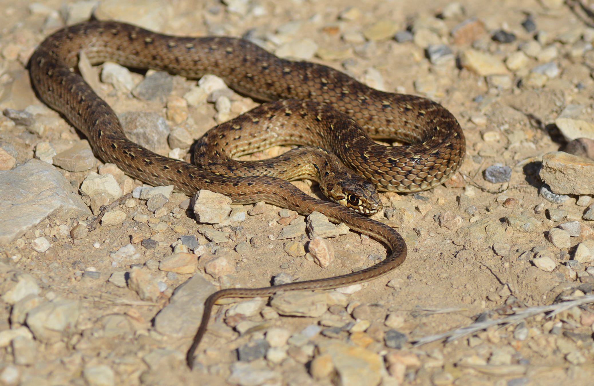 Montpellier Snake in France